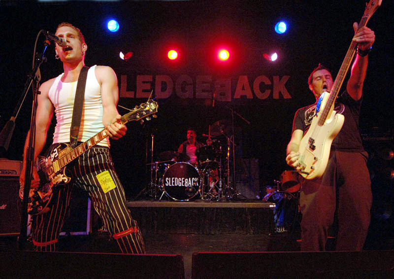 Sledgeback is performing live at Showbox in Seattle (2005). Gábor Szakácsi on the left side.